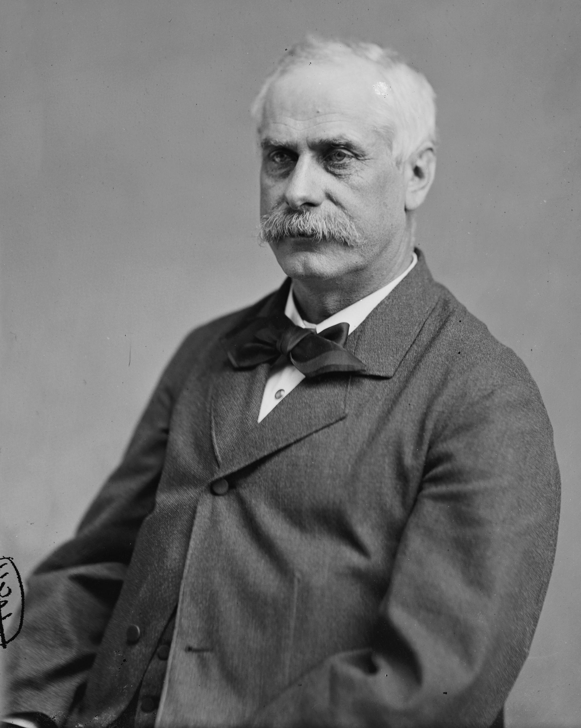 John G. Schumaker. Library of Congress description: "Schumaker, Hon. John Godfrey of N.Y."